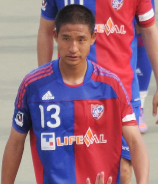 Naotake Hanyu cropped from DSC_4427